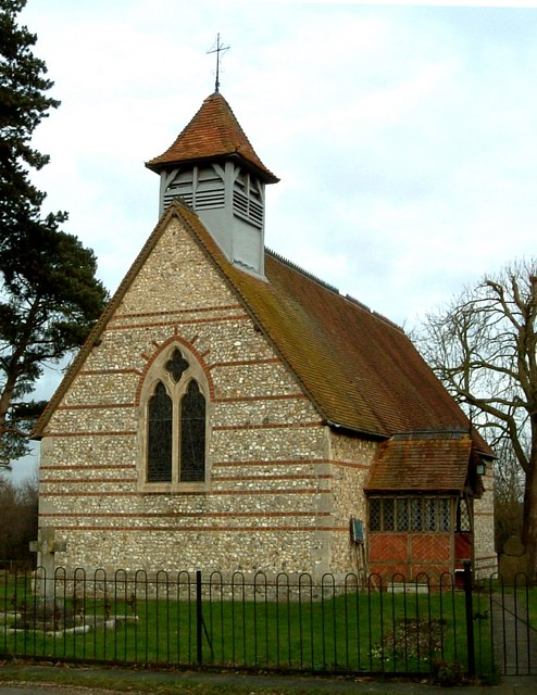 St. Mary's Church, Hawridge - View from S.E. Another aspect of Hawridge's quaint little church.Information about Hawridge & St. Mary's here